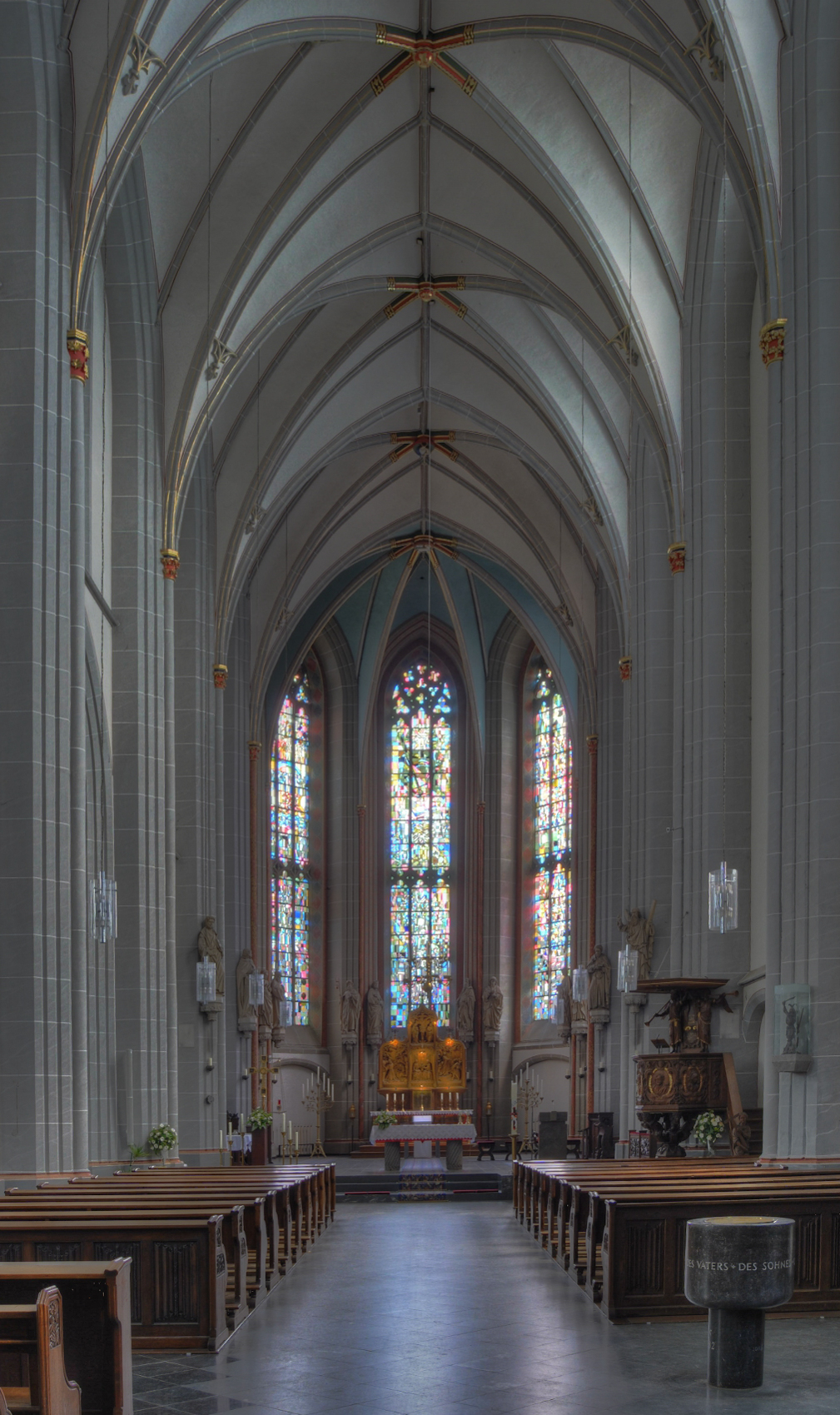 Interior view of the right side aisle of the Catholic Saint Mary Magdalene Church in Goch, Germany (HDR) This image shows a heritage building in Germany, located in the North Rhine-Westphalian city Goch (no. 5). This photograph was taken with a Nikon D3000